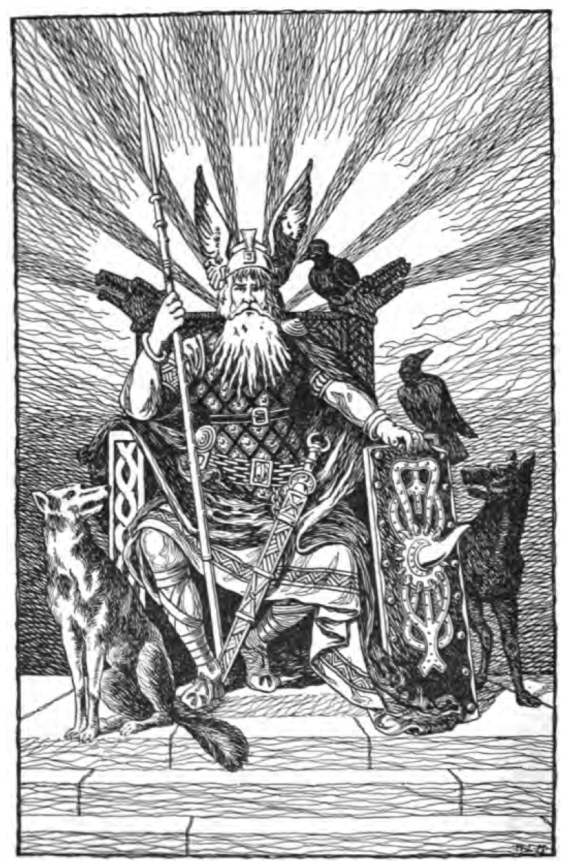 Captioned as "Odin, the Allfather". Odin sits on a throne, with Geri and Freki on his sides and Huginn and Muninn sitting on his shield and throne.